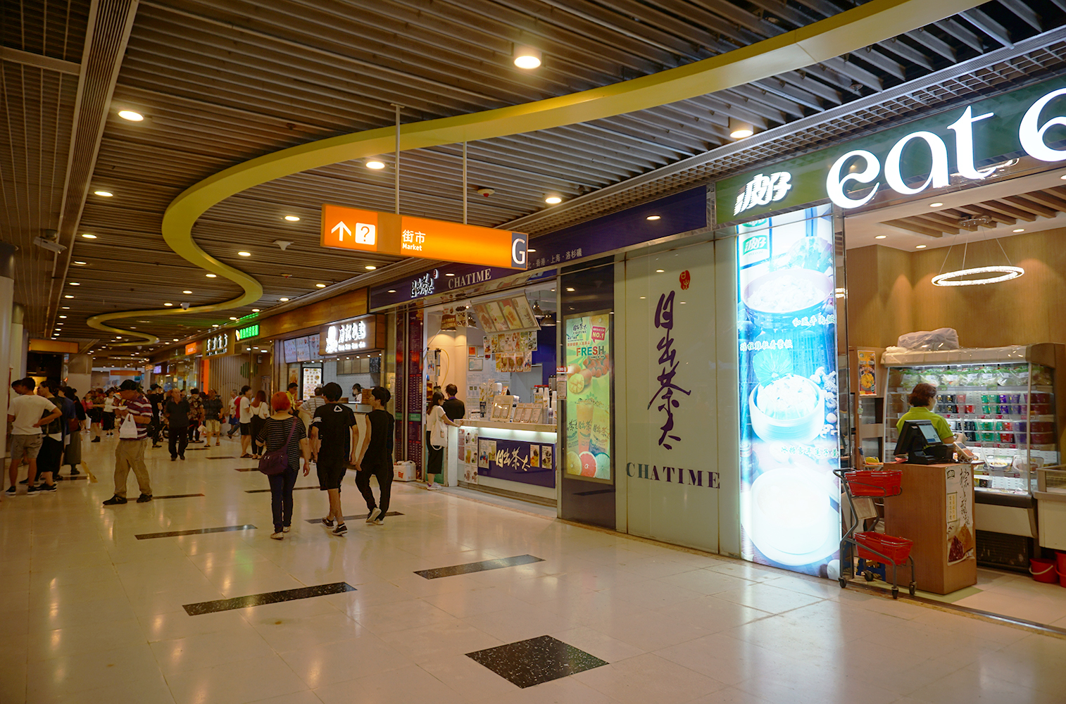 Tin Chak Shopping Centre in Tin Shui Wai, Hong Kong.